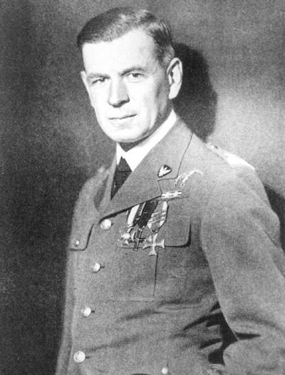 War-time picture of Gen. Ludomił Rayski